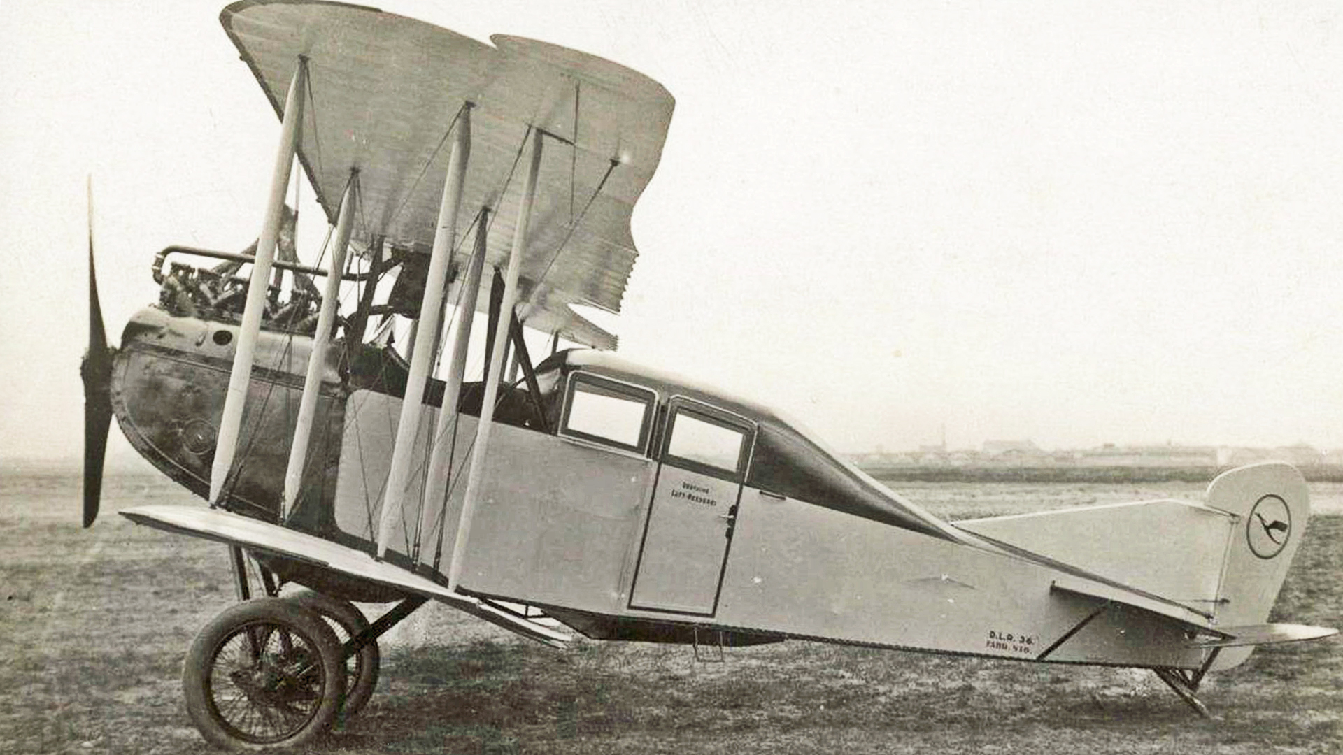 AEG J.II K (cabin version) of the German airline Deutsche Luft-Reederei (DLR) with the fleet number D.L.R. 36. This aircraft was registered "D-9" with the German aircraft register. Upon the 6 February 1923 merger of DLR with the "Lloyd Luftdienst" to form "Deutsche Aero Lloyd", she went into the new airline's inventory. On October 7, 1924, she was lost due to damage.